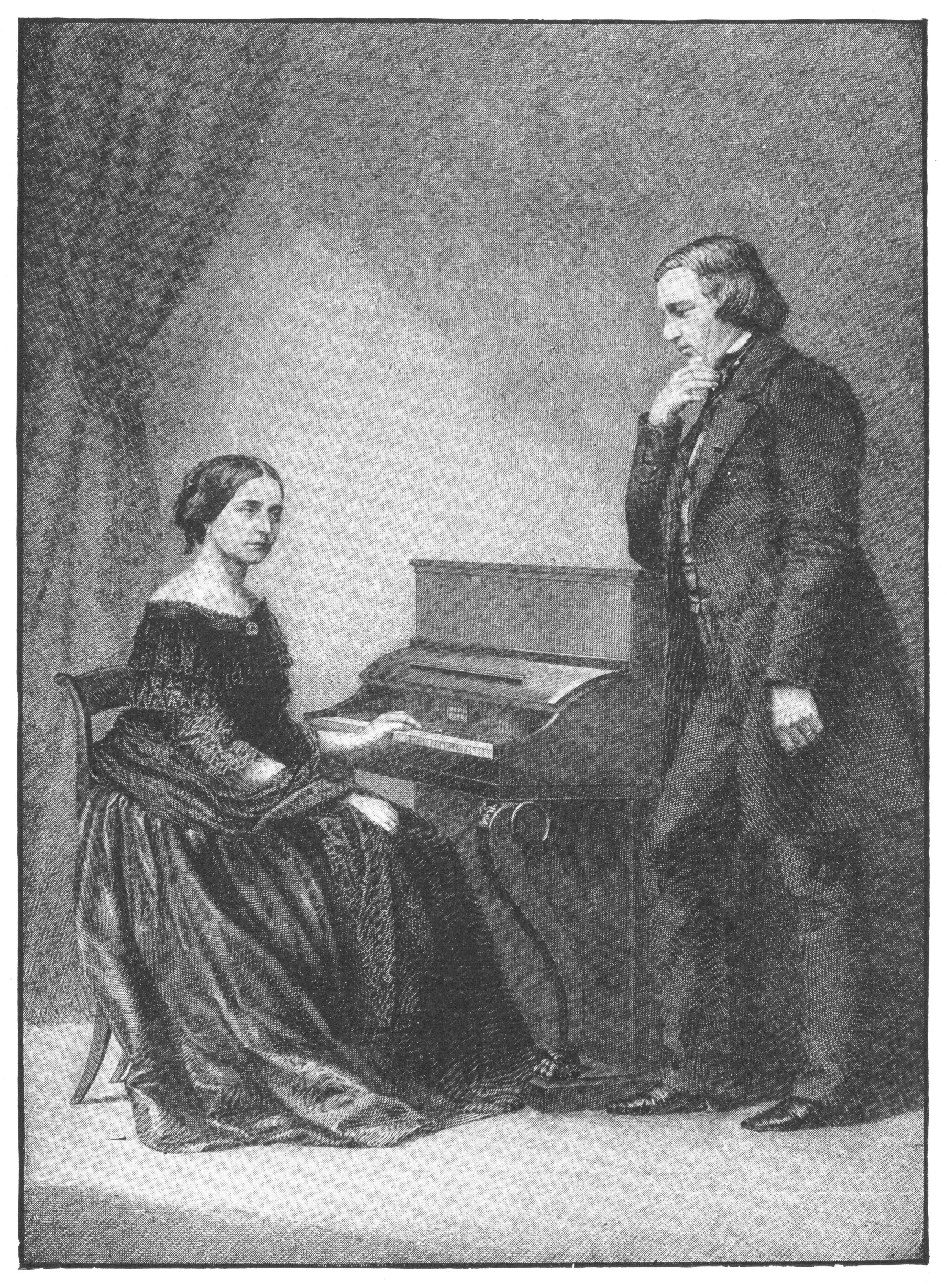 Illustration from Famous Composers and their Works, v. 2 (image numbering reflects original page order)